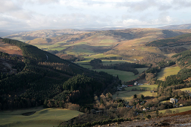 Yarrowford from Foulshiels Hill Yarrowford is a small village in the Yarrow Valley, 4 miles west-northwest of Selkirk.